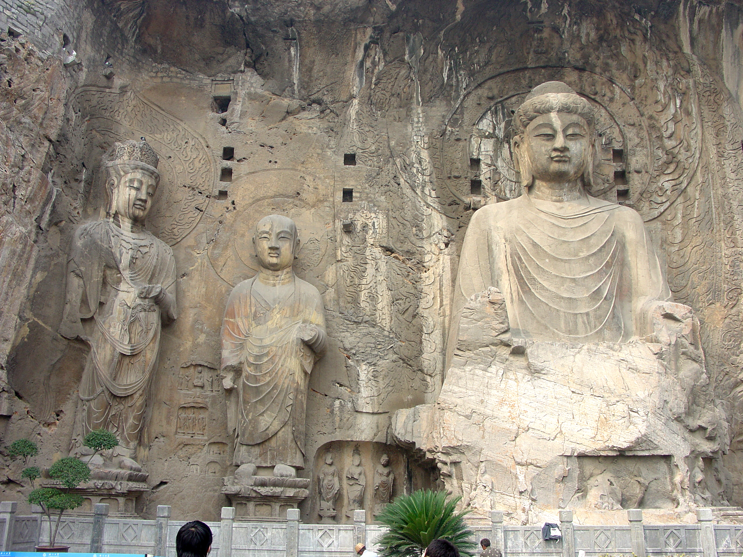 Left rear wall of Fengxian Si. Tang Dynasty, 675 A.D. Longmen Grottoes. The Fengxian cave, also known as the "Great Image Niche," was commissioned by Wu Zetian. The rear wall is a pentad, whose center and left figures are seen here. The central Buddha is Vairocana.